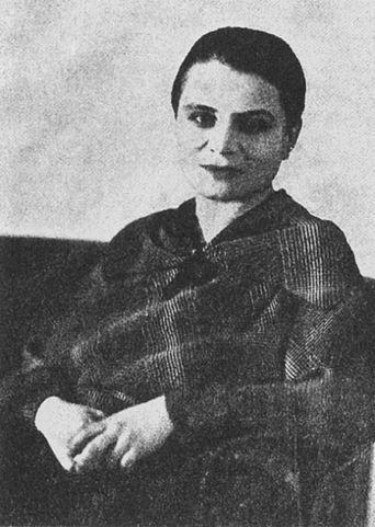 Toyen en 1930